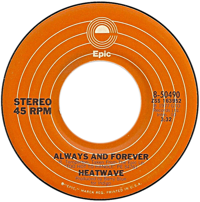 "Always and Forever" by Heatwave US vinyl single.png